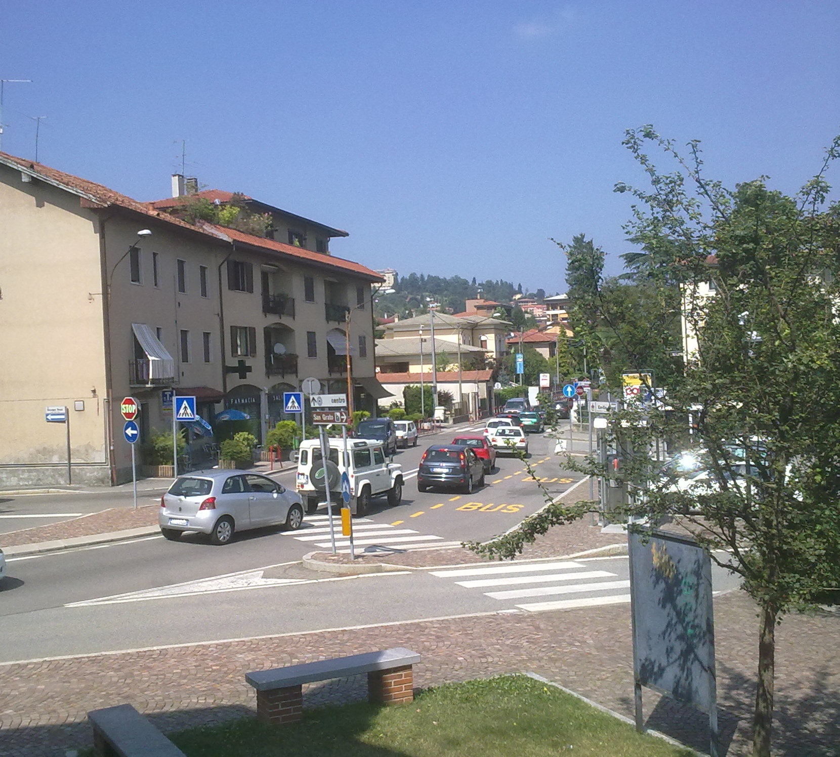 Bobbiate